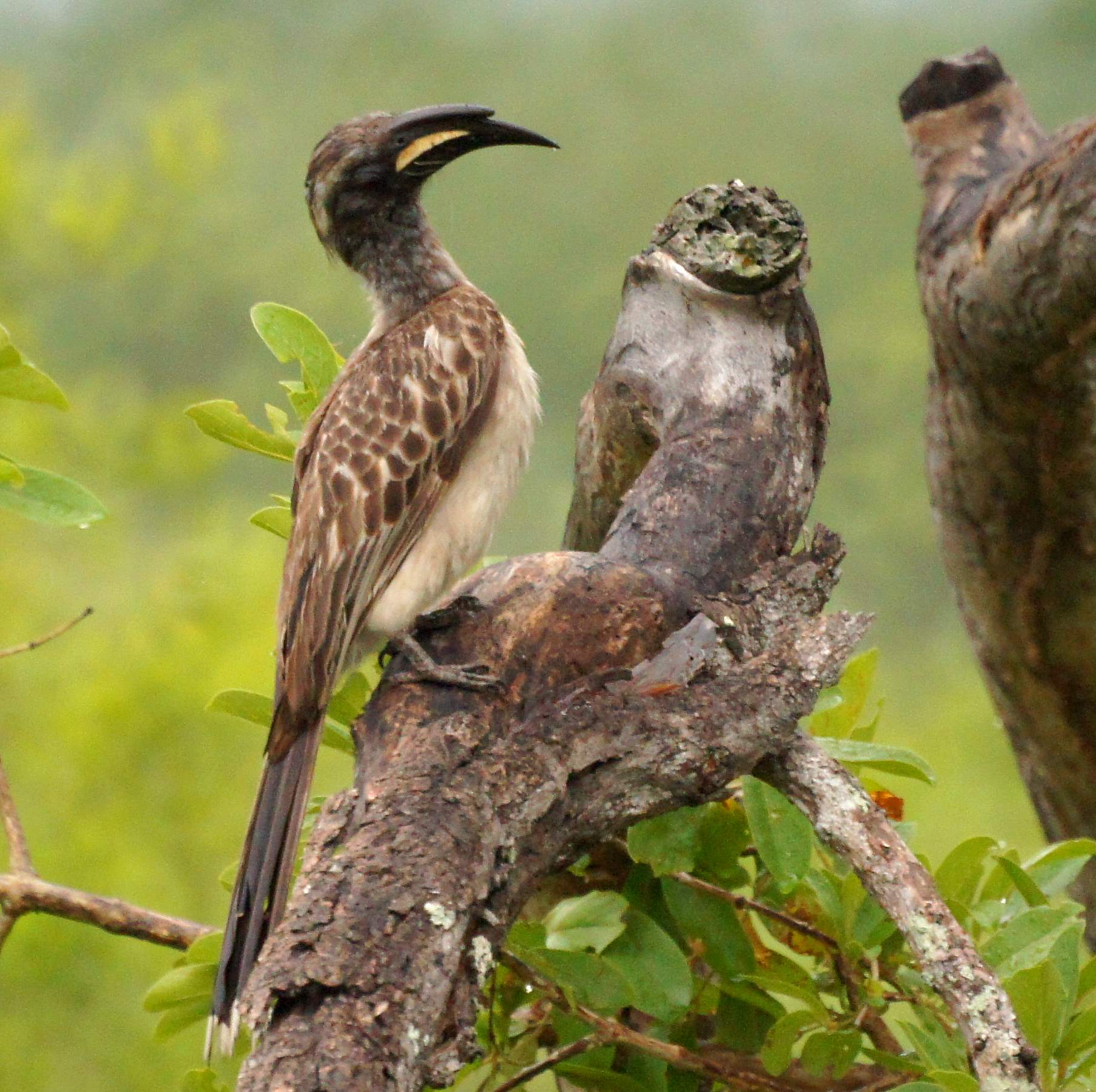 An adult male African Grey Hornbill in Limpopo, South Africa.